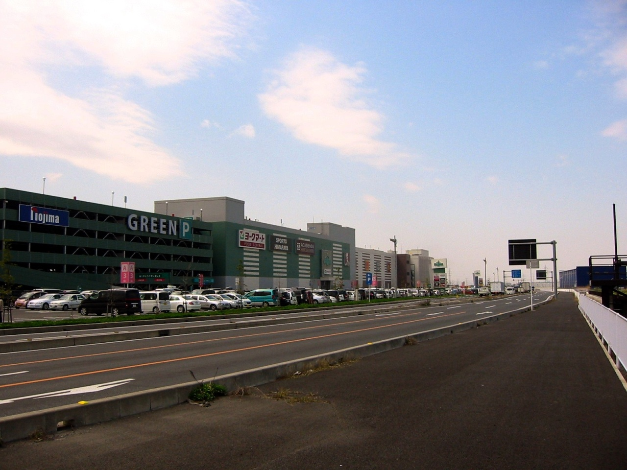 Mallage Shōbu in Kuki, Saitama Japan